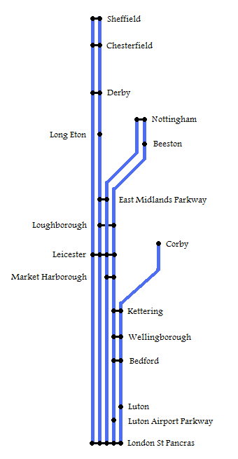 A Map of East Midlands Trains services showing the current service pattern each hour